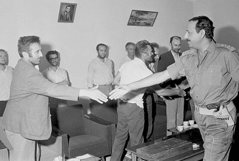 Jordanian army chief of staff Shairf Zaid ibn Shaker checks on freed Dawson's field aircrafts hostages, 25 September 1970